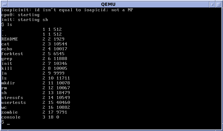 The Xv6 operating system, an open source OS developed for teaching purposes, based on a rewrite of the UNIX v6 kernel. As a tiny minimalist system, few features are available.